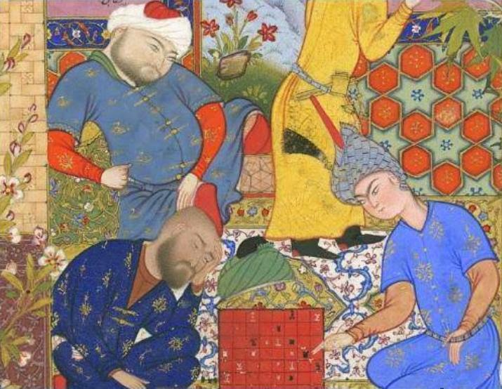 Persian youth playing chess with two of his suitors. Illustration to the "Haft Awrang" of Nur ad-Din Abd ar-Rahman Jami, in the story A Father Advises his Son About Love, (in which a father instructs his young son how to choose an elder worthy male lover).